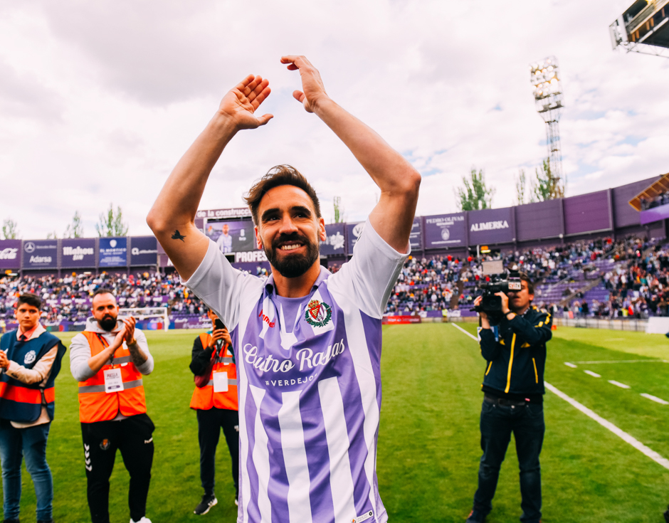 Real Valladolid - Valencia C. F., 38th fixture of the 2018-19 La Liga, May 18, 2019.